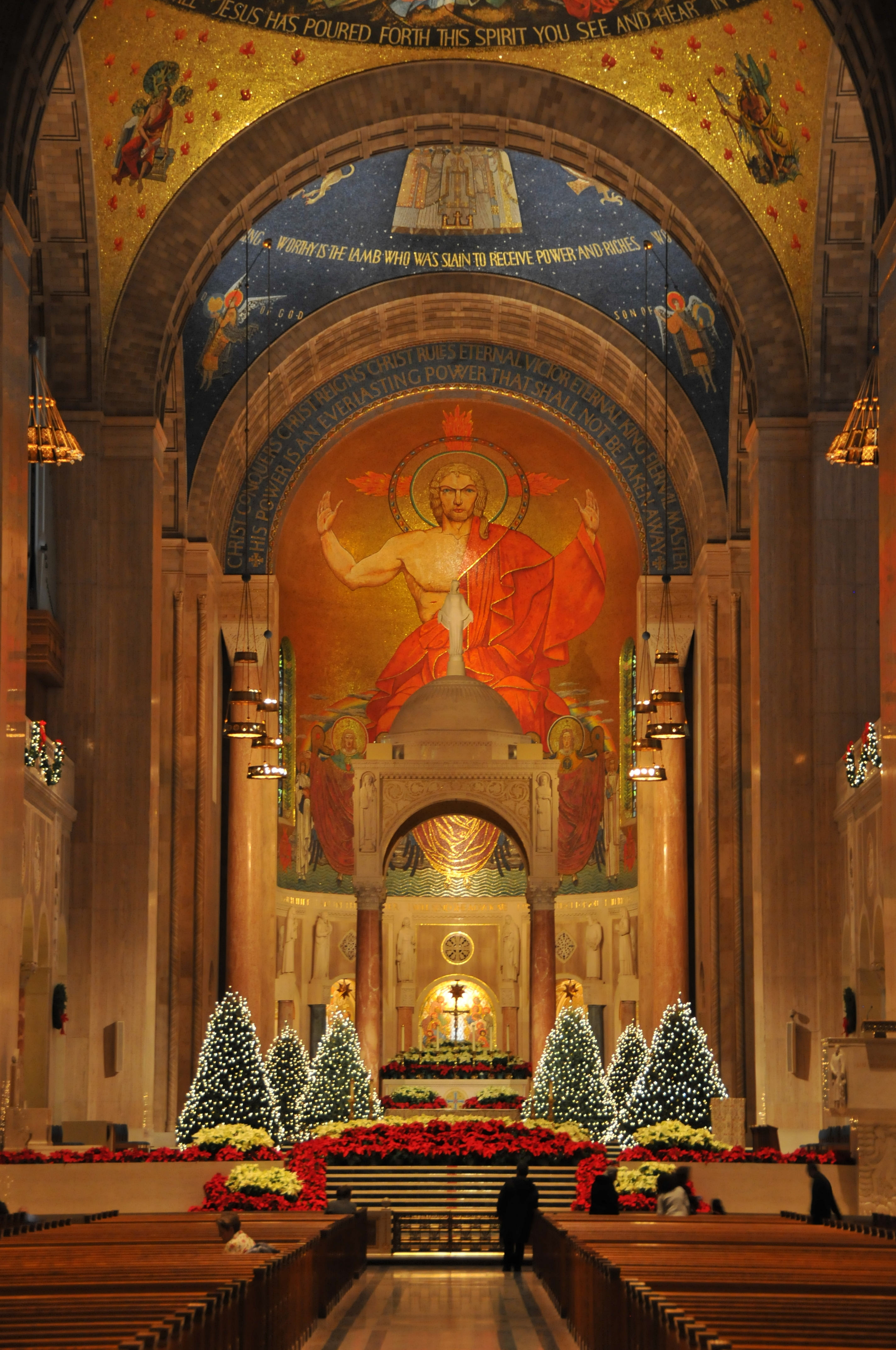 I wish I had a million dollars. I would pay someone to change this Ugly painting of Jesus in this beautiful Basilica. I mean.... who is the idiot that approved such a design???? can we know please so that we get him excommunicated ? Very beautiful church in DC. very rich in design and history. national shrine